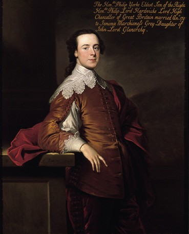 Philip Yorke, 2nd Earl of Hardwicke (1720-1790).